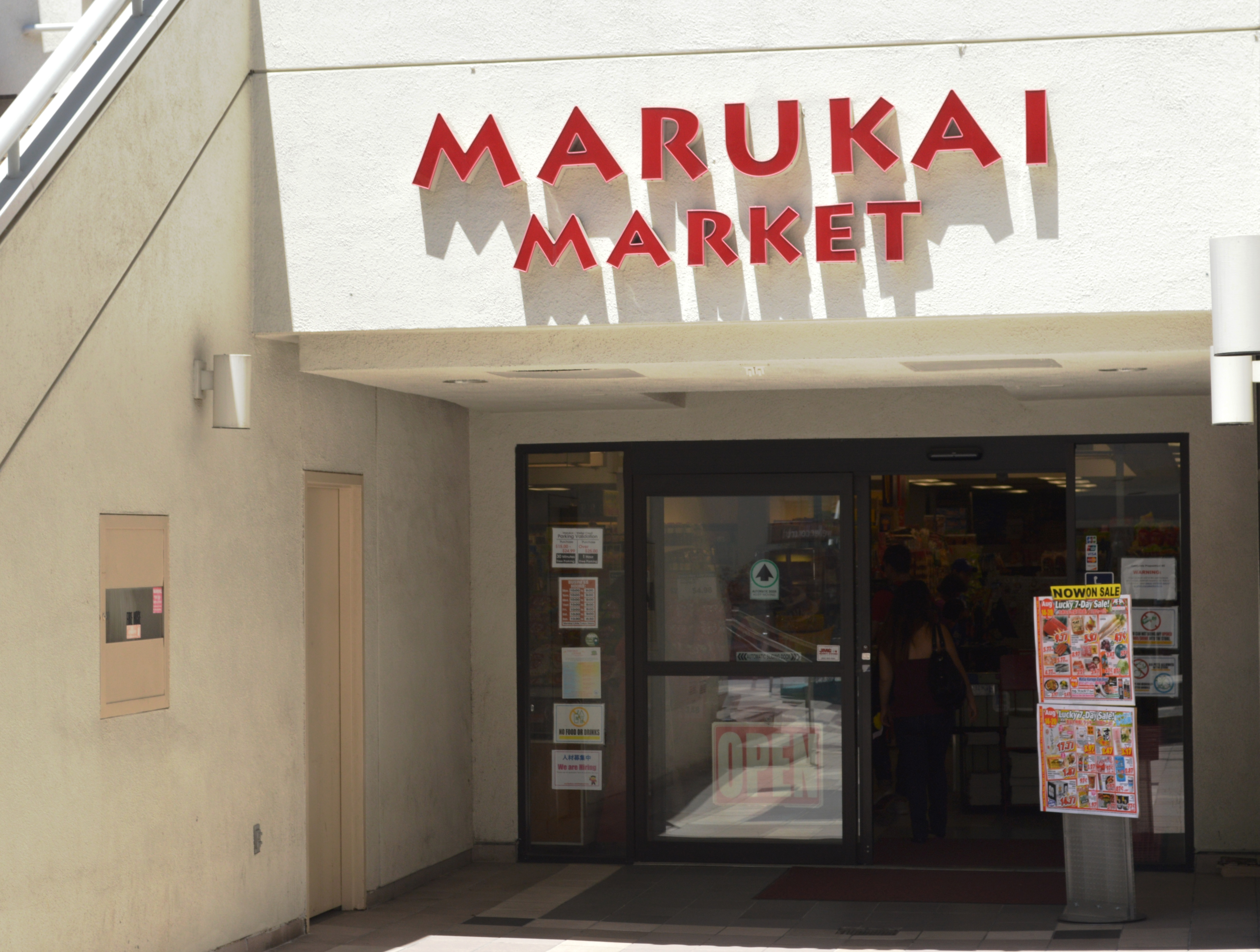 Marukai Market at Weller Court (Japanese shopping plaza) in Little Tokyo, Los Angeles.